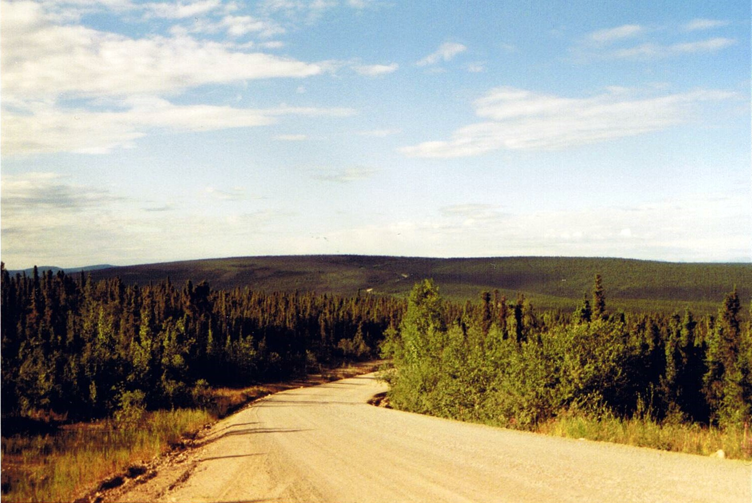 Taylor Highway scanned image